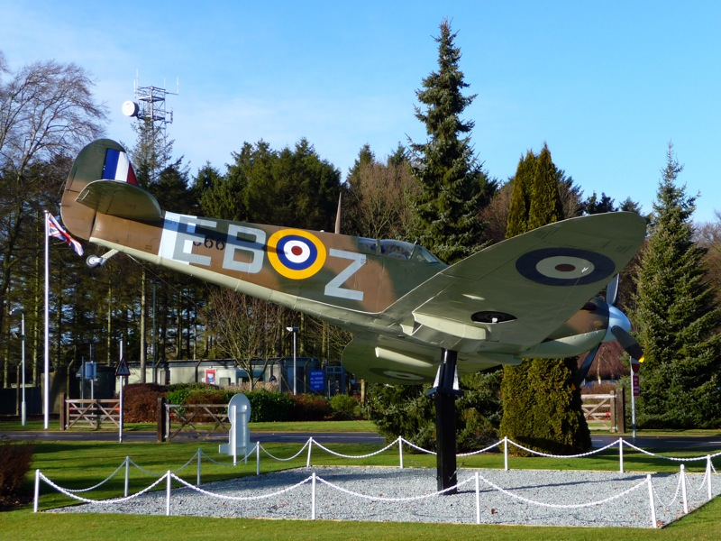 RAF High Wycombe Battle of Britain Class Spitfire